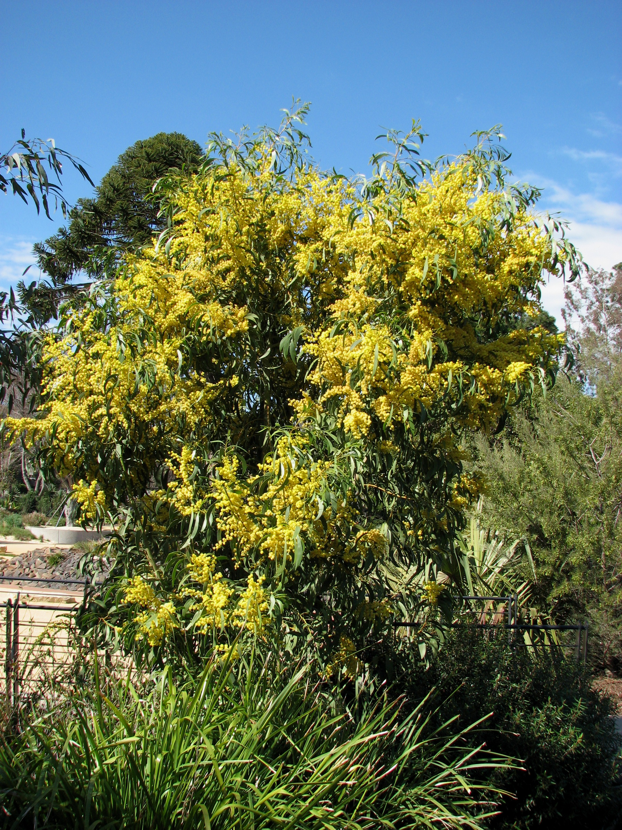 Acacia pycnantha (cultivated, labelled), Geelong Botanic Gardens Melbourne, Victoria, Australia